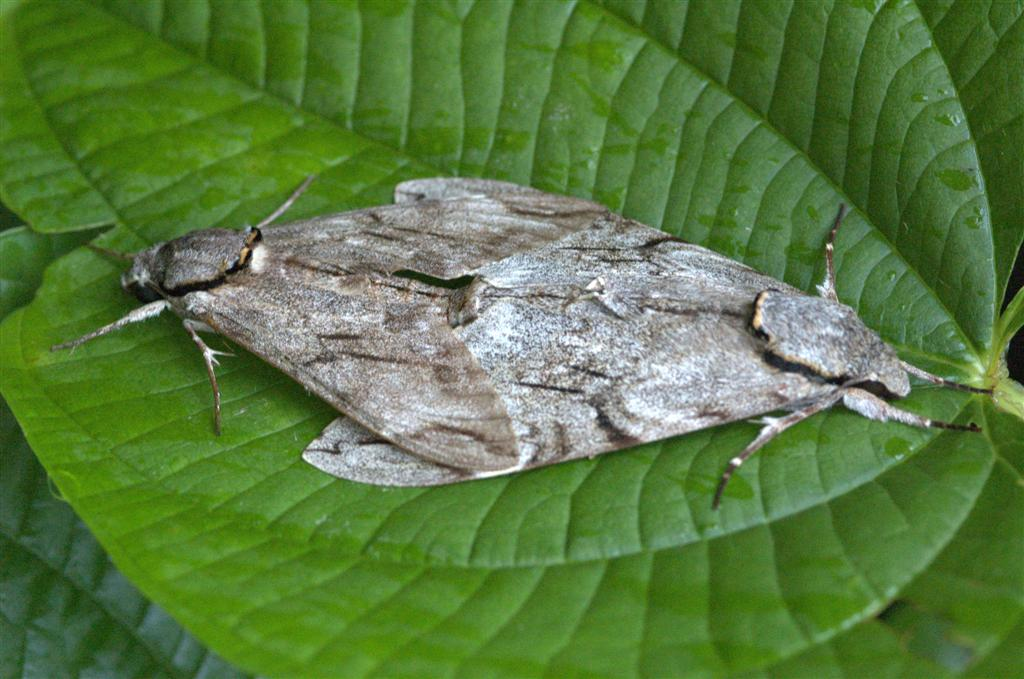 Psilogramma increta - Sphingidae, Sphinginae